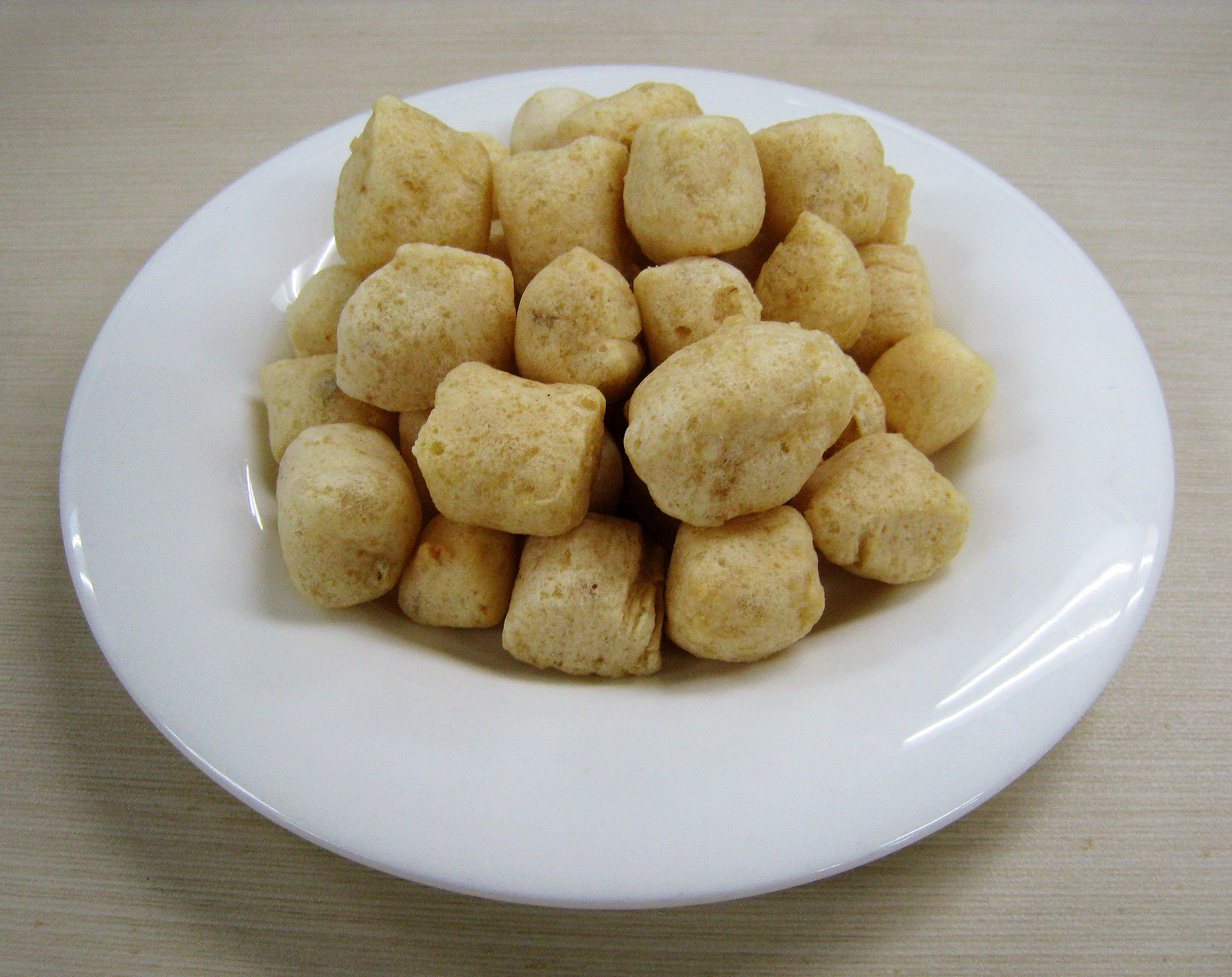 Amplang or Kuku Macan fish cracker from Pontianak, West Kalimantan, Indonesia. Amplang is a popular foodstuf gift/souvenir from Kalimantan (Indonesian Borneo). Made from wahoo fish, tapioca starch, garlic, flavour enchancer and baking powder.